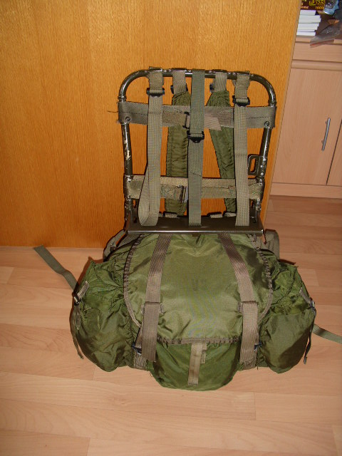 1968 lighweight rucksack with frame